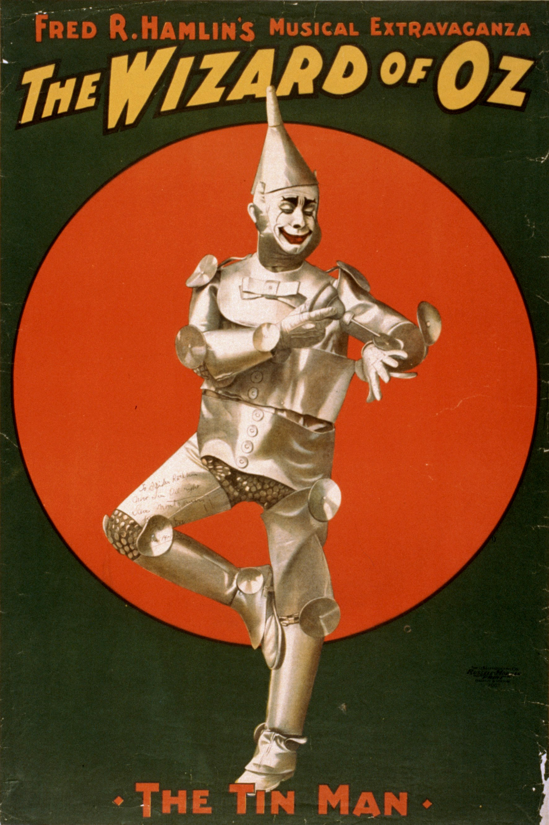 The Tin Man. Poster for Fred R. Hamlin's musical extravaganza, The Wizard of Oz. Poster print, lithograph, color, 105 × 70 cm. Created by "The U.S. Lithograph Co., Russell-Morgan Print, Cincinnati & New York." Signed: To Spider Rathburn, now I'm oil-right. Dave Montgomery by Fred Stone. (David C. Montgomery played the Tin Woodman, Fred Stone the Scarecrow.) Jan. 14, 1936. Gift; Maxine Williams; 1973. No. 7007. Exhibited: The Wizard of Oz: An American Fairy Tale.